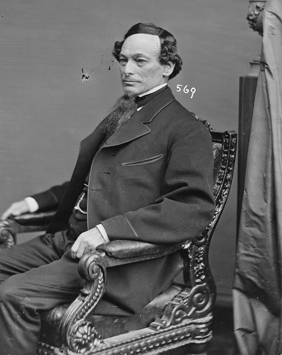 William S. Lincoln, Congressman from New York